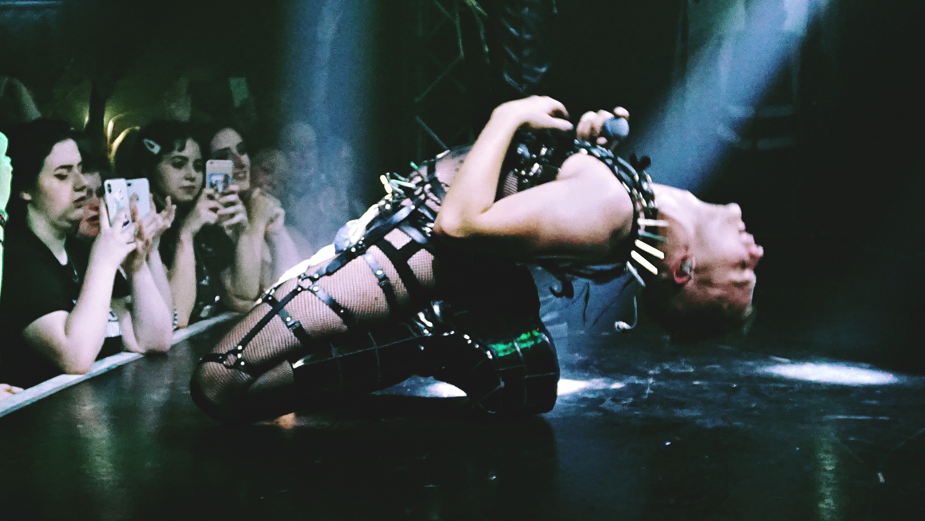 Hatari, The Dome, Tufnell Park, London